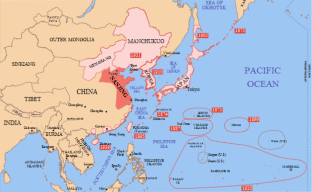 Nanjing Republic (1940-1945)